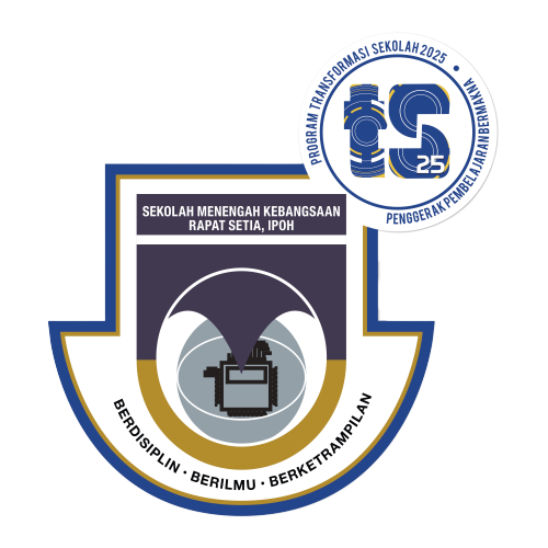 Logo SMK Rapat Setia is a trademark of school.